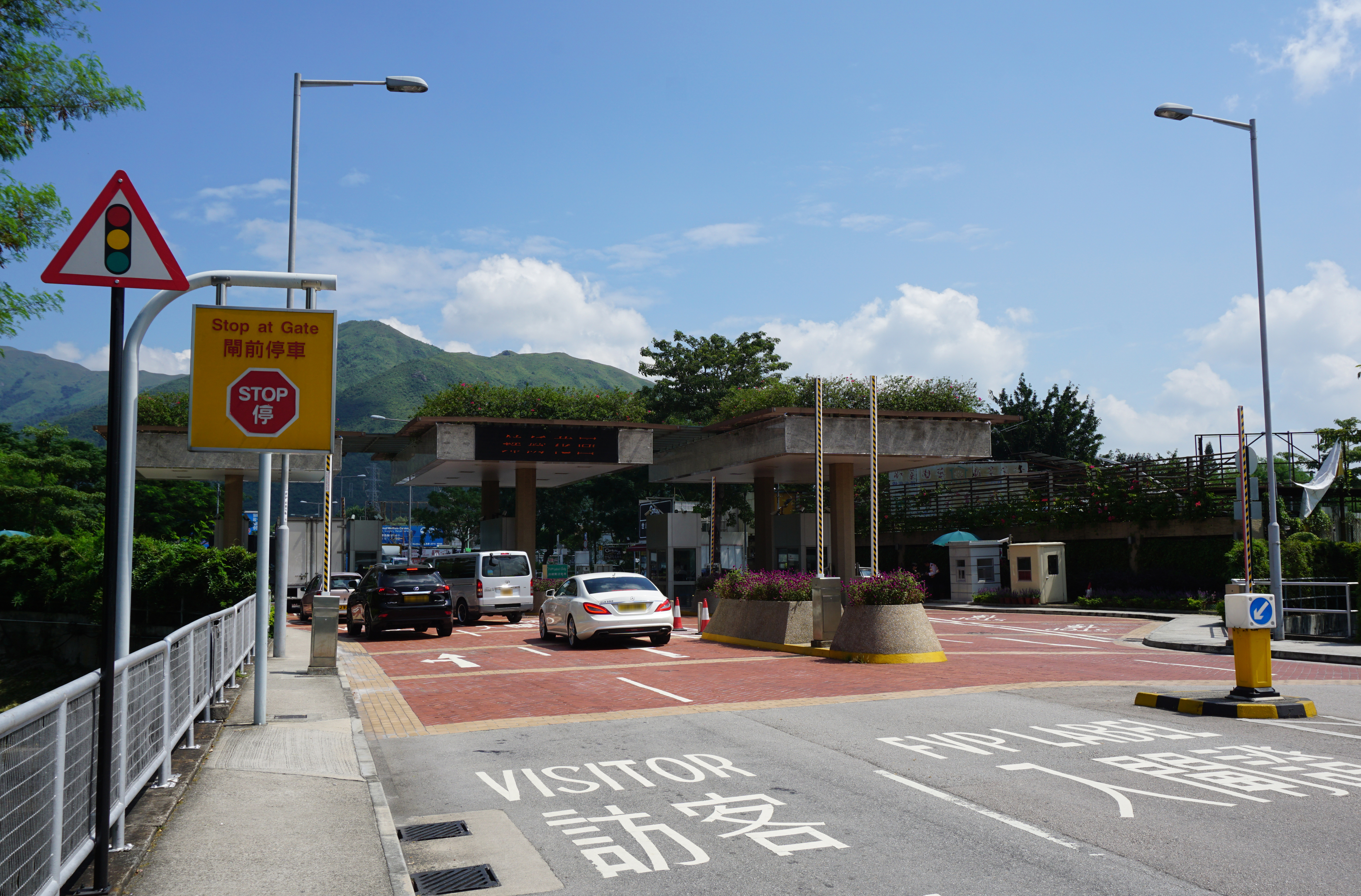 Fairview Park in Tai Sang Wai, Hong Kong.